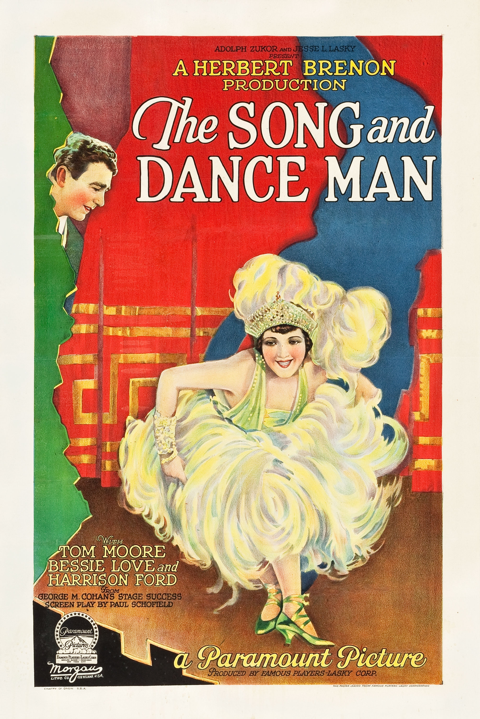 Poster for the 1926 film The Song and Dance Man. The item has no copyright markings on it as can be seen in the links above. At bottom left is a logo for Morgan Litho Corp. Cleveland, O.-they printed the poster and Country of Origin USA. At bottom right is This poster leased from Famous Players-Lasky Corporation.